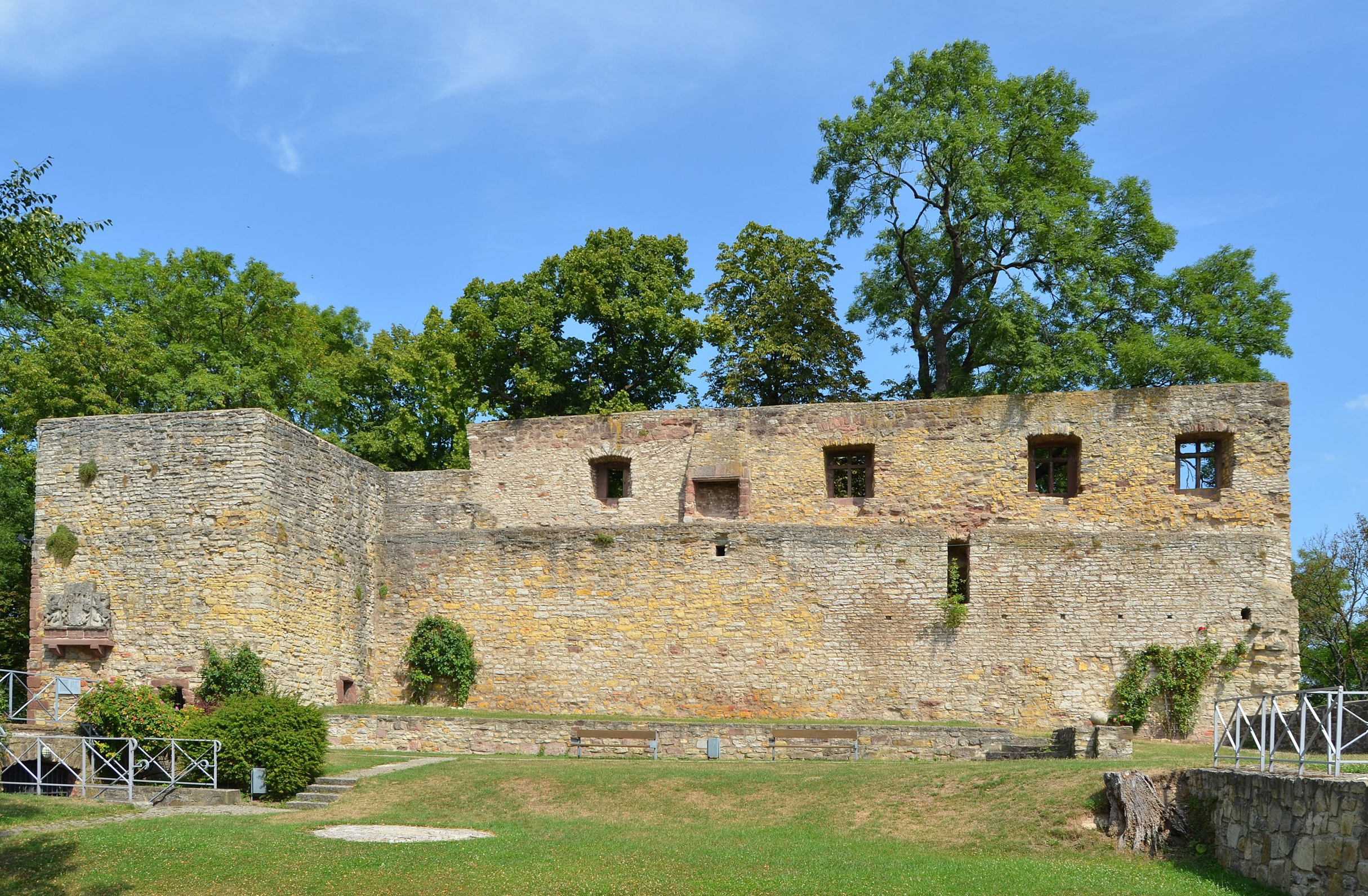 Einbeck (Lower Saxony, Germany) – district Salzderhelden – Heldenburg Castle This is a photograph of an architectural monument.It is on the list of cultural monuments of Einbeck This photograph was taken with a Nikon D7000